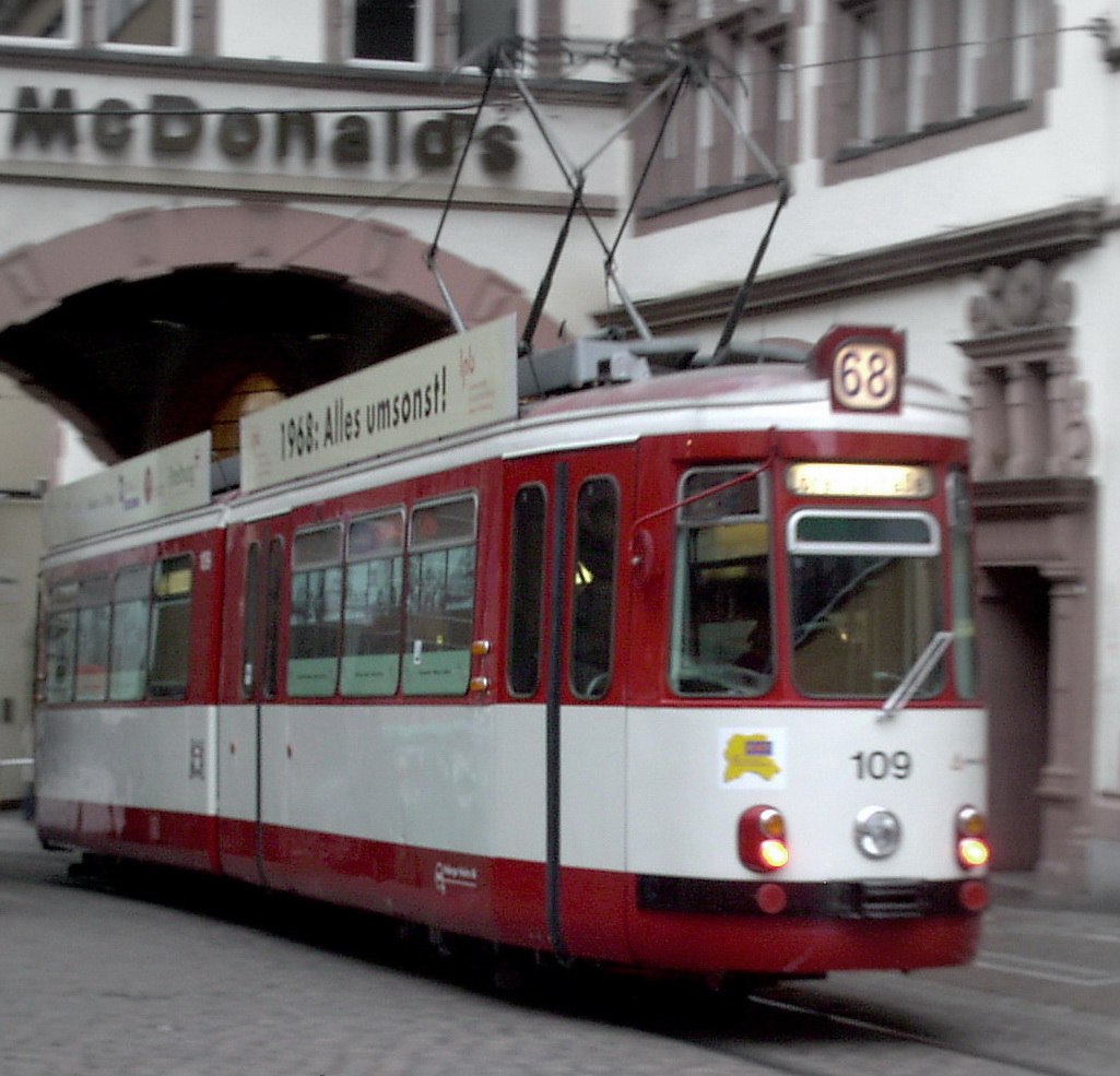 Historical tram GT4 at the Martinstor